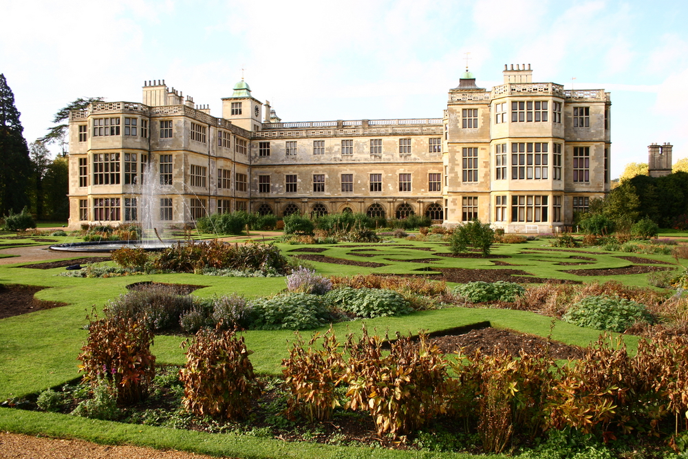 Audley End House in England